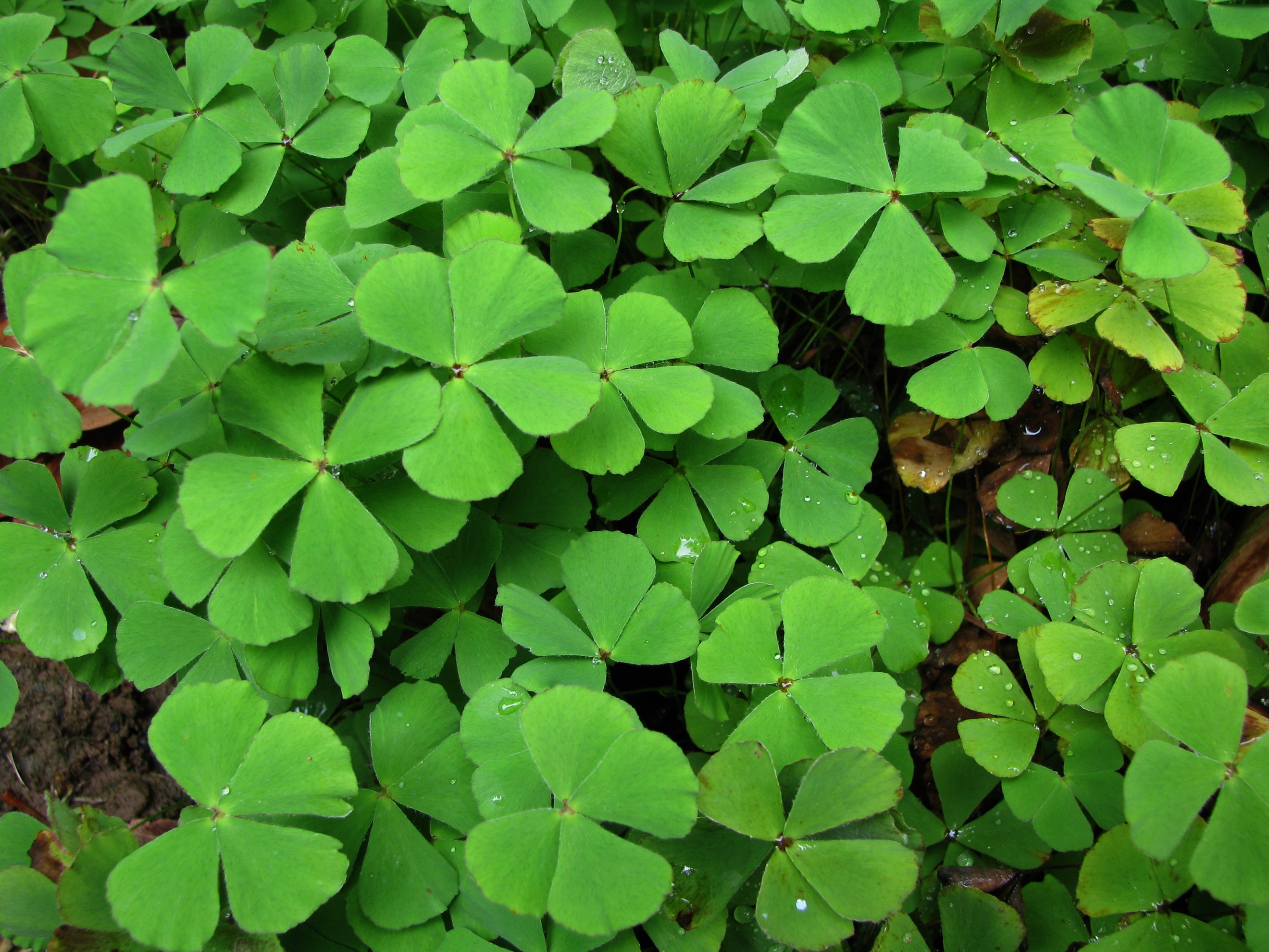 ʻIhiʻihi, ʻIhiʻihilauākea or Hawaiian waterfern Marsileaceae Endemic to the Hawaiian Islands (Niʻihau, extinct?; extant on Oʻahu, Molokaʻi) Endangered; Oʻahu variety Oʻahu (Cultivated) NPH 00008